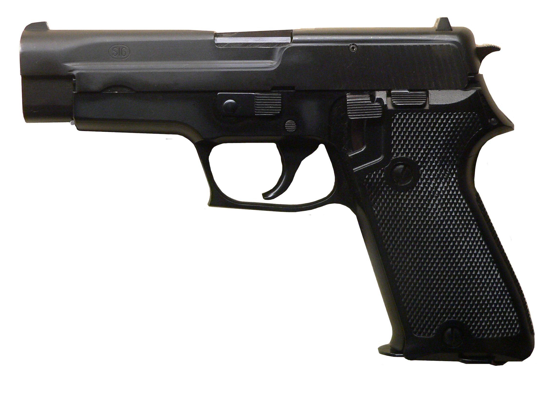 SIG P220 service pistol of the Swiss Army.